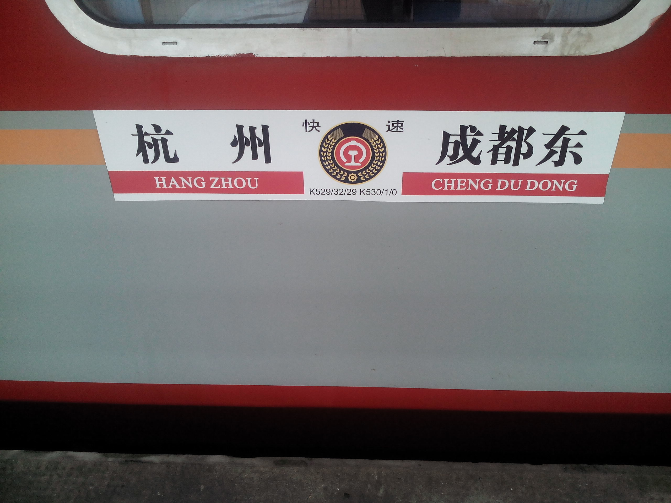 K529-530 infoboard in 201508